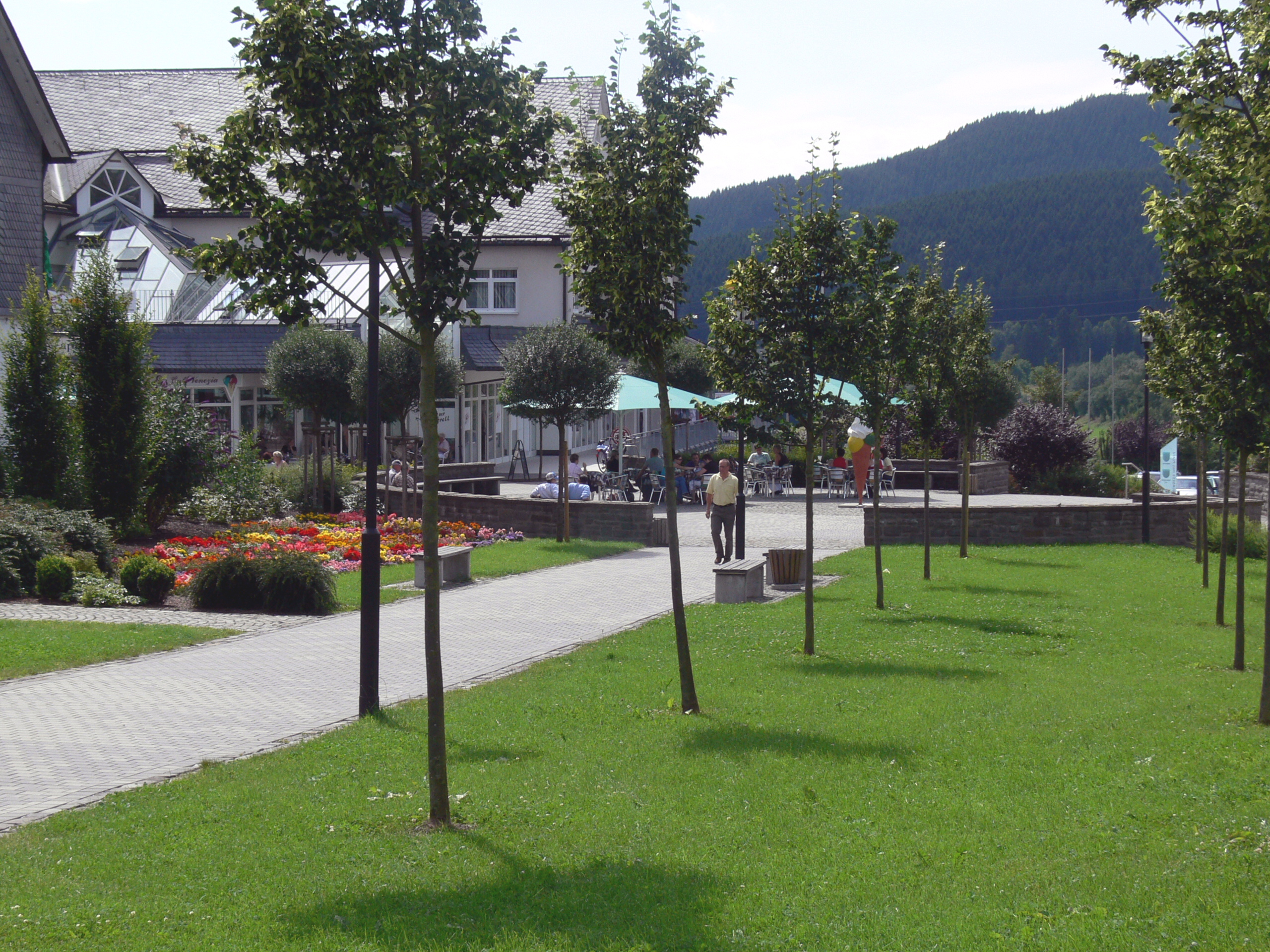 The Burgess Hill Square in Schmallenberg is named after its English twin town.